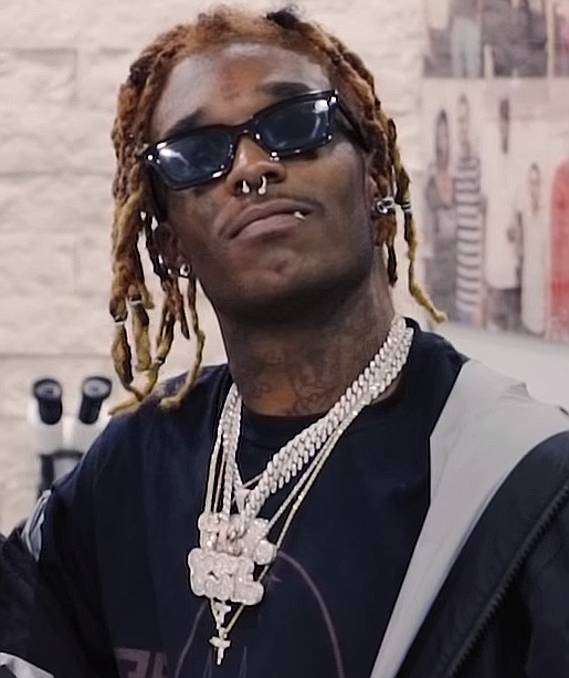 American Rapper Lil Uzi Vert at Icebox in 2018